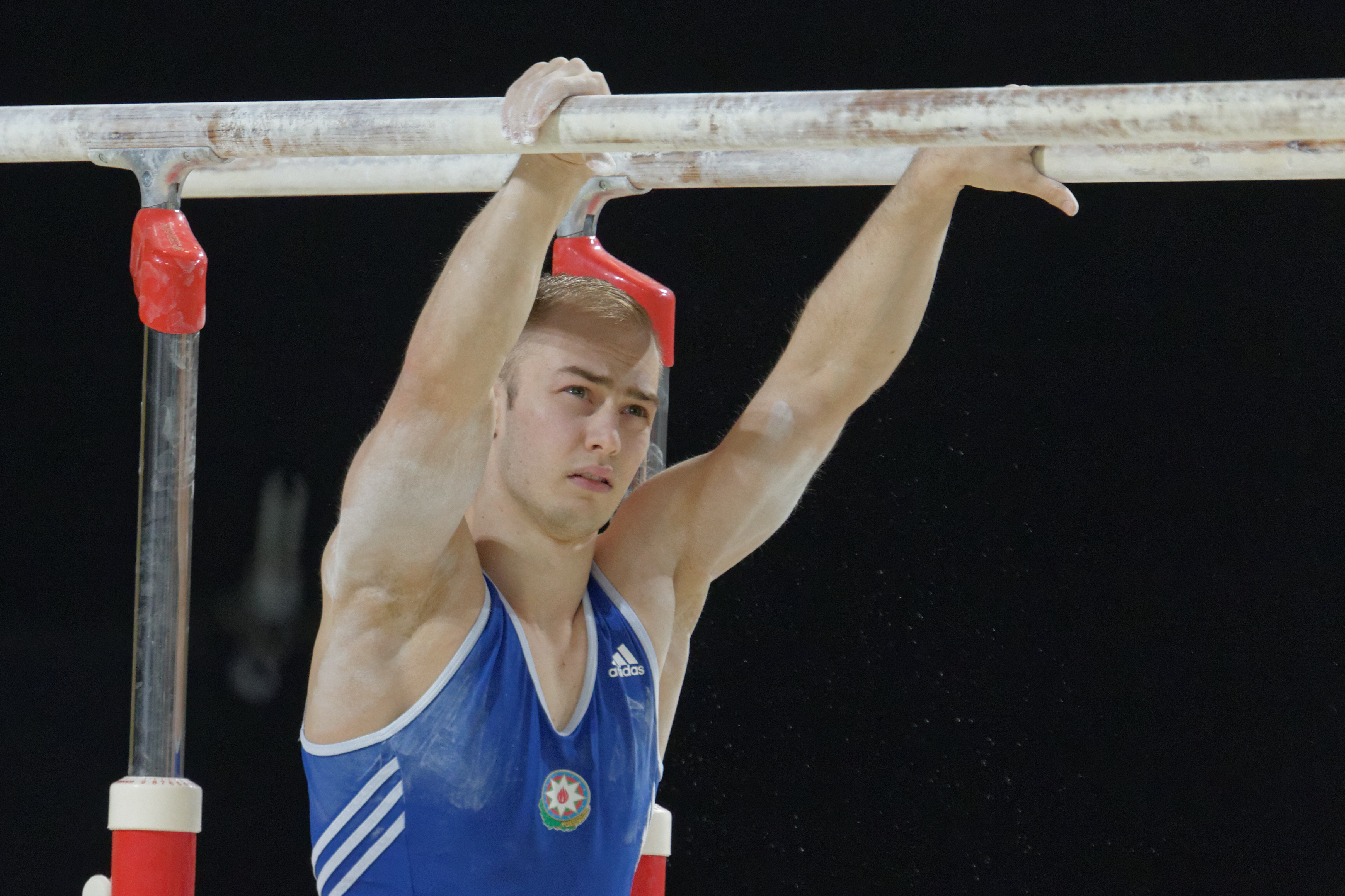 2015 European Artistic Gymnastics Championships.